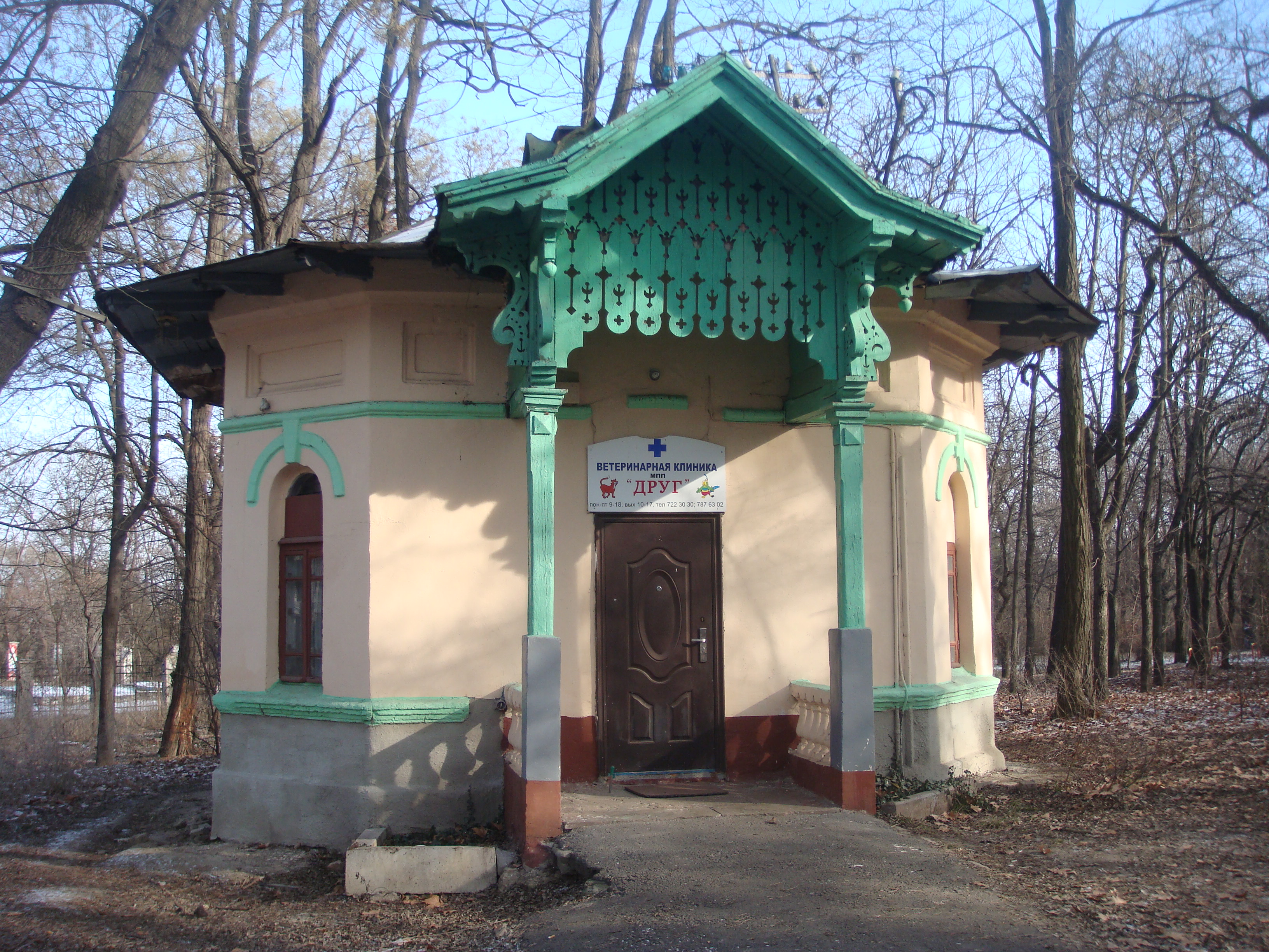 One of pavilion of Odessa Art and Industry Exposition of 1910 survived during turbulent years of XX century. Alexandrovsky Park. Odessa.